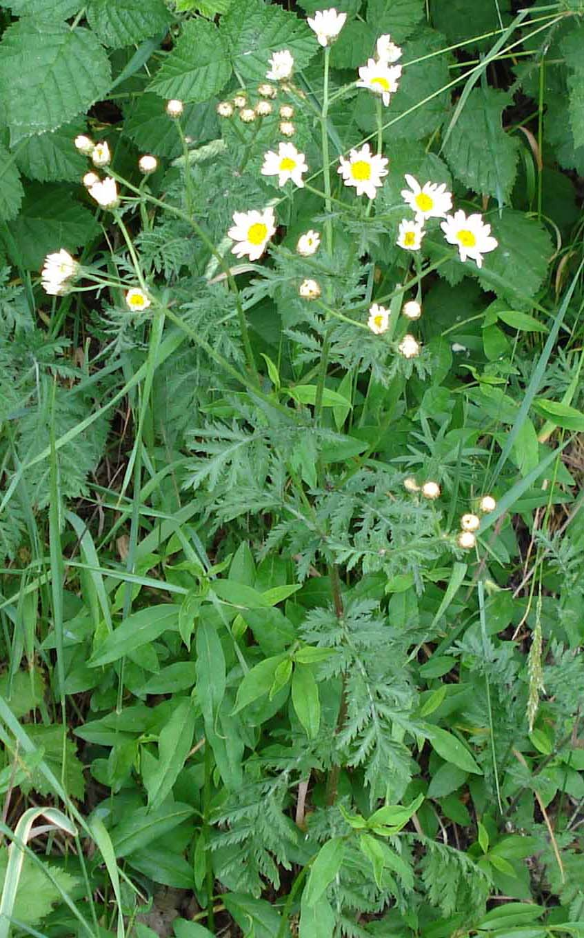 Tanacetum corymbosum (Unterfranken, Germany)